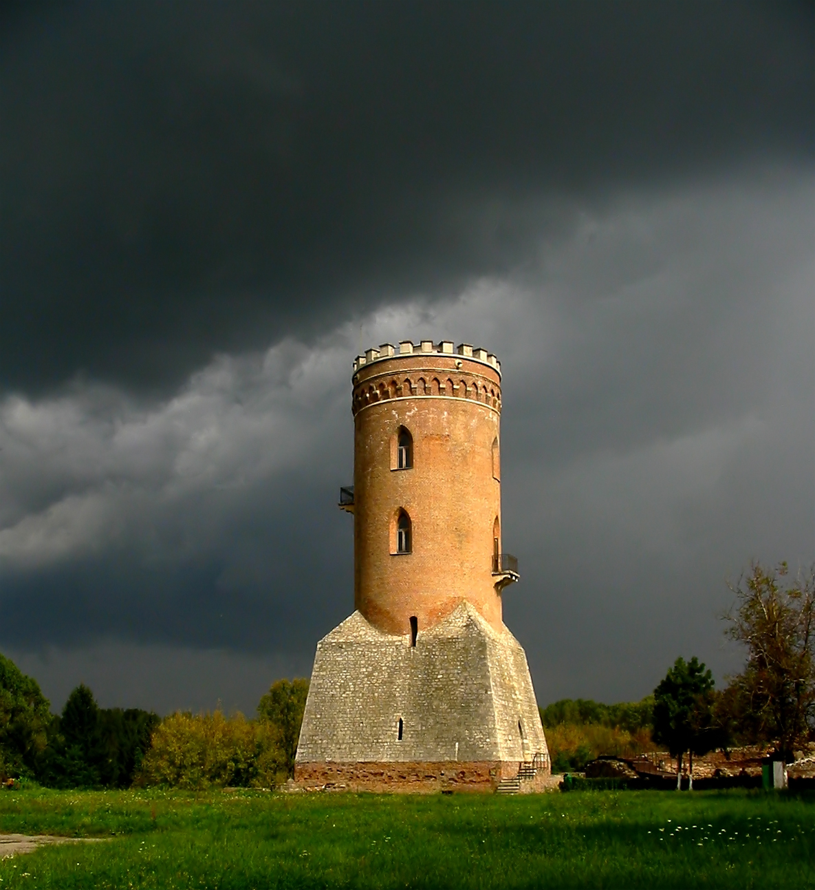 Chindia Tower in Târgovişte, Romania, built by Vlad Dracula, in the 15th century. The tower is 27 meters high, and 9 meters in diameter, and is a historical monument, presently being home to a collection of documents, weapons, and objects belonging to the Wallachian ruler.